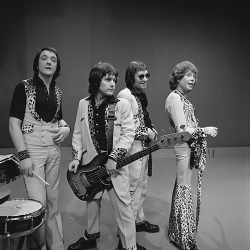 Mud in AVRO's TopPop (Dutch television show) in 1974